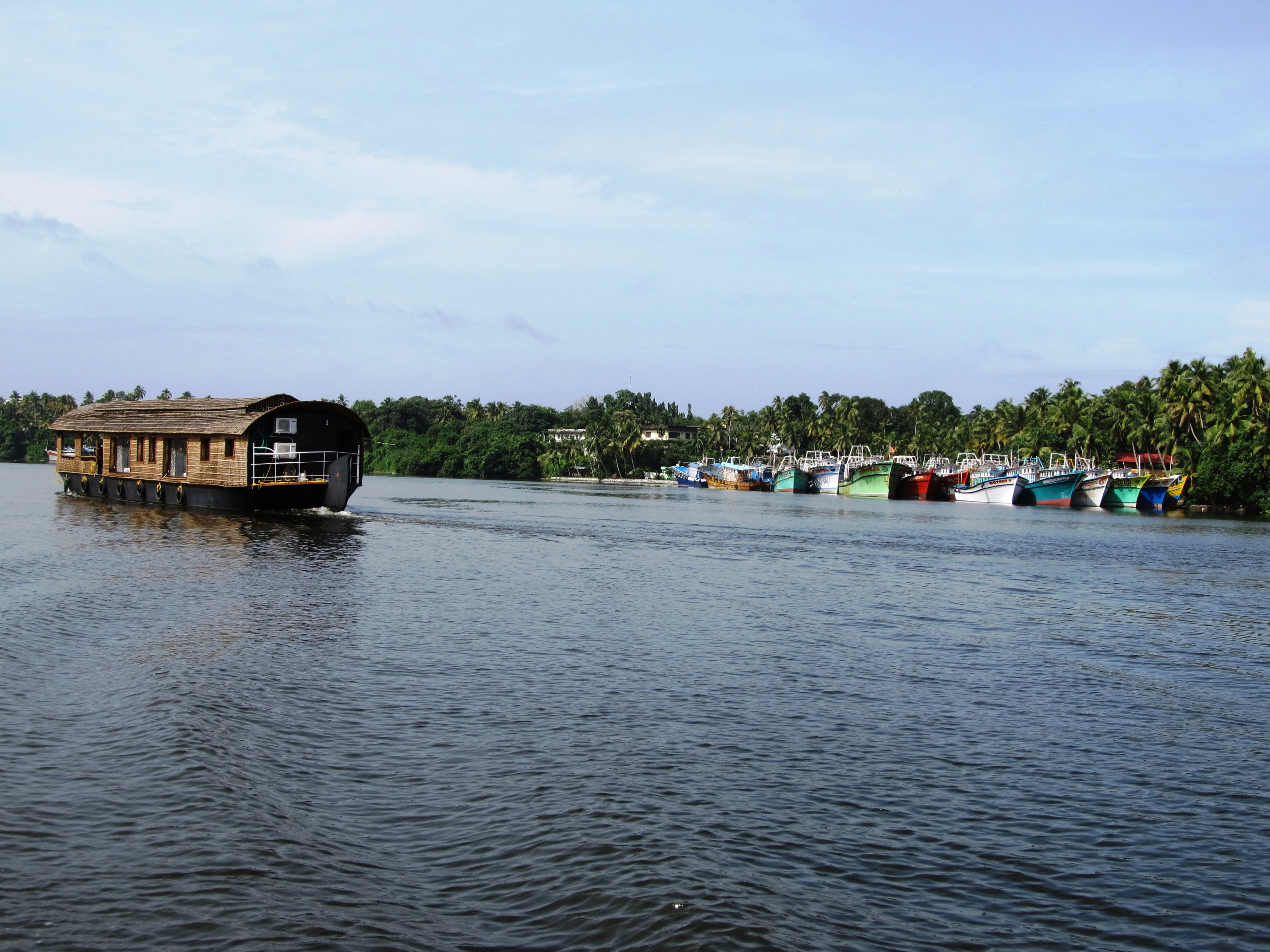 House boat in Kollam Back water